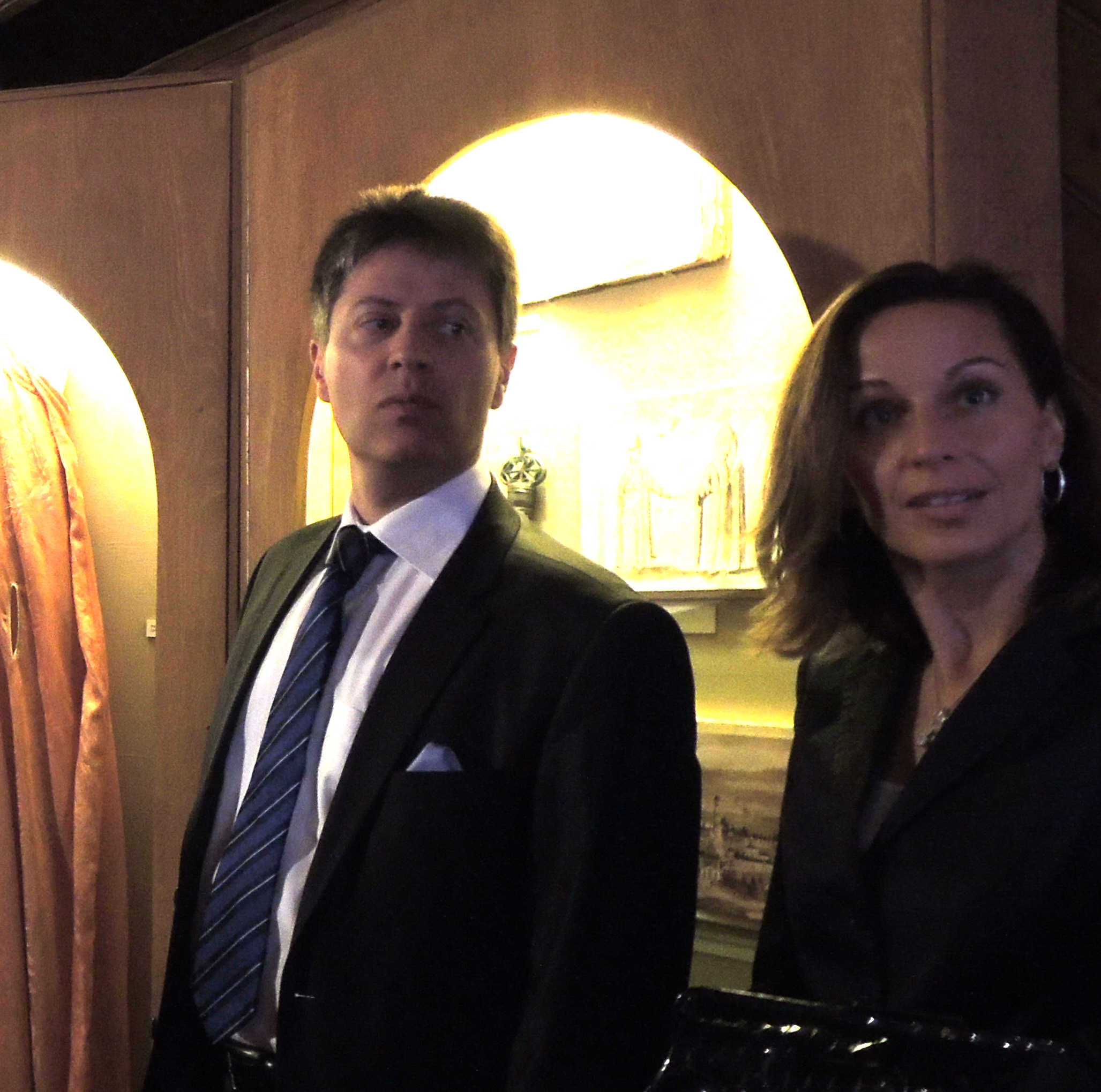 Georgii Aleksandrovich Yourievsky, Prince Yourievsky was born on 8 December 1961 at St. Gall, Switzerland.1 He is the son of Aleksandr Georgiievich Yourievsky, Prince Yourievsky and Ursule Anne Marie Beer.He gained the title of Prince Georgii Yourievsky. With his 2nd wife